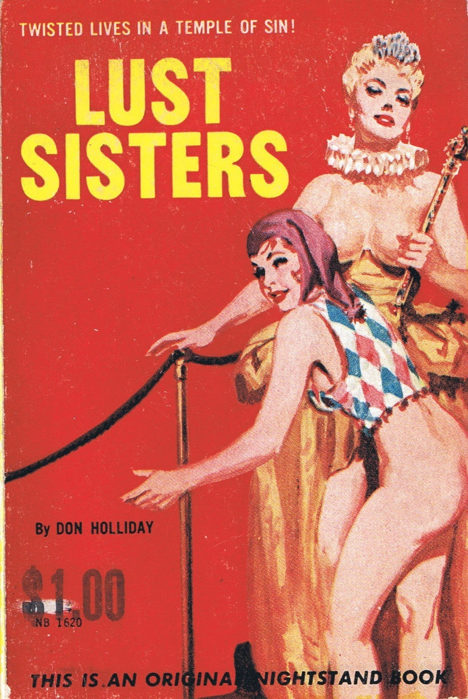 Cover of "Lust Sisters" by Don Holliday (Arthur Plotnik). Illustration by Harold W. McCauley.